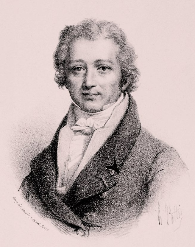 German-born French piano and harp maker Sébastien Érard (1752-1831)